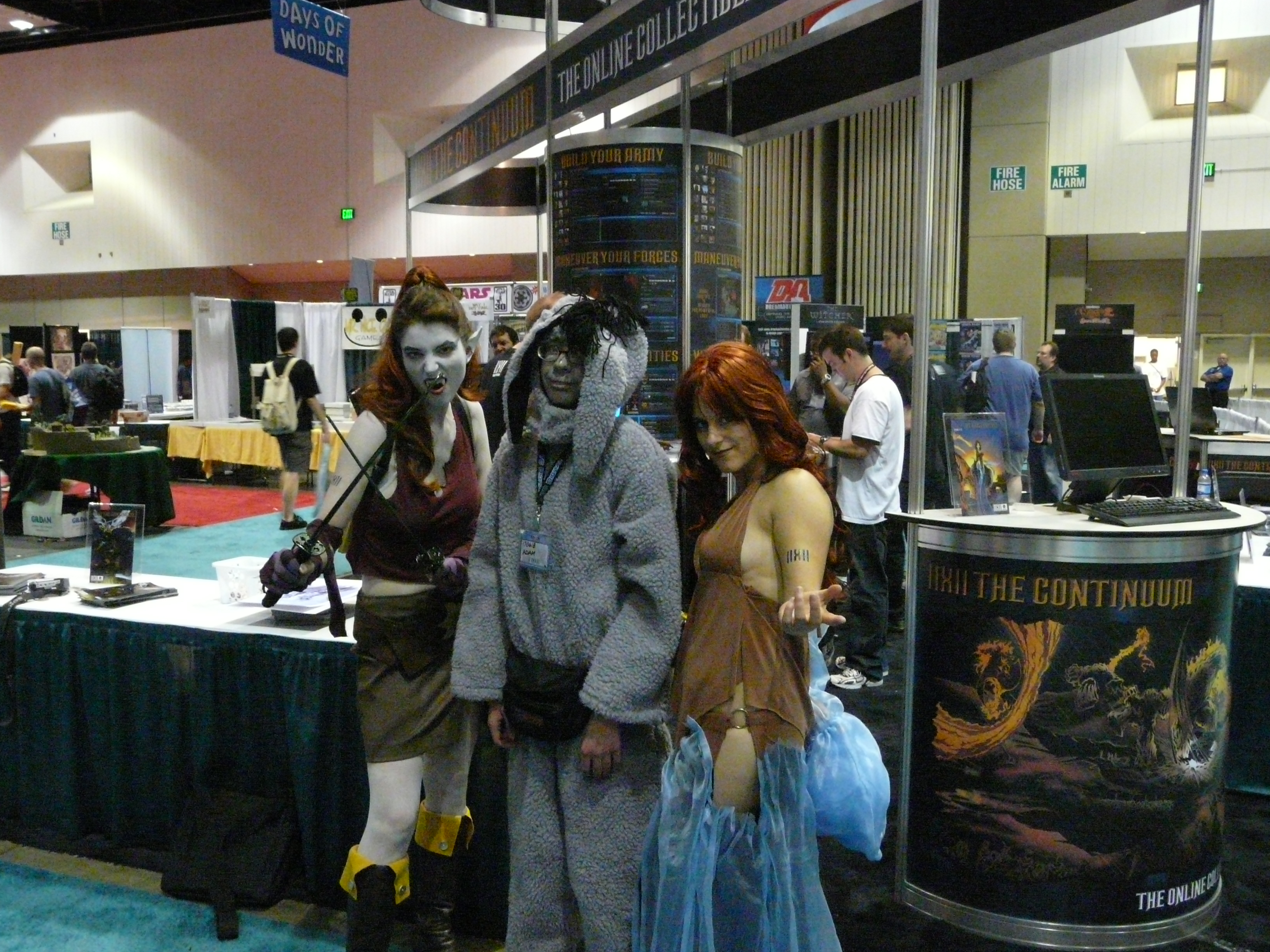 Picture of Gen Con Indy 2008 in Indianapolis, Indiana, USA.